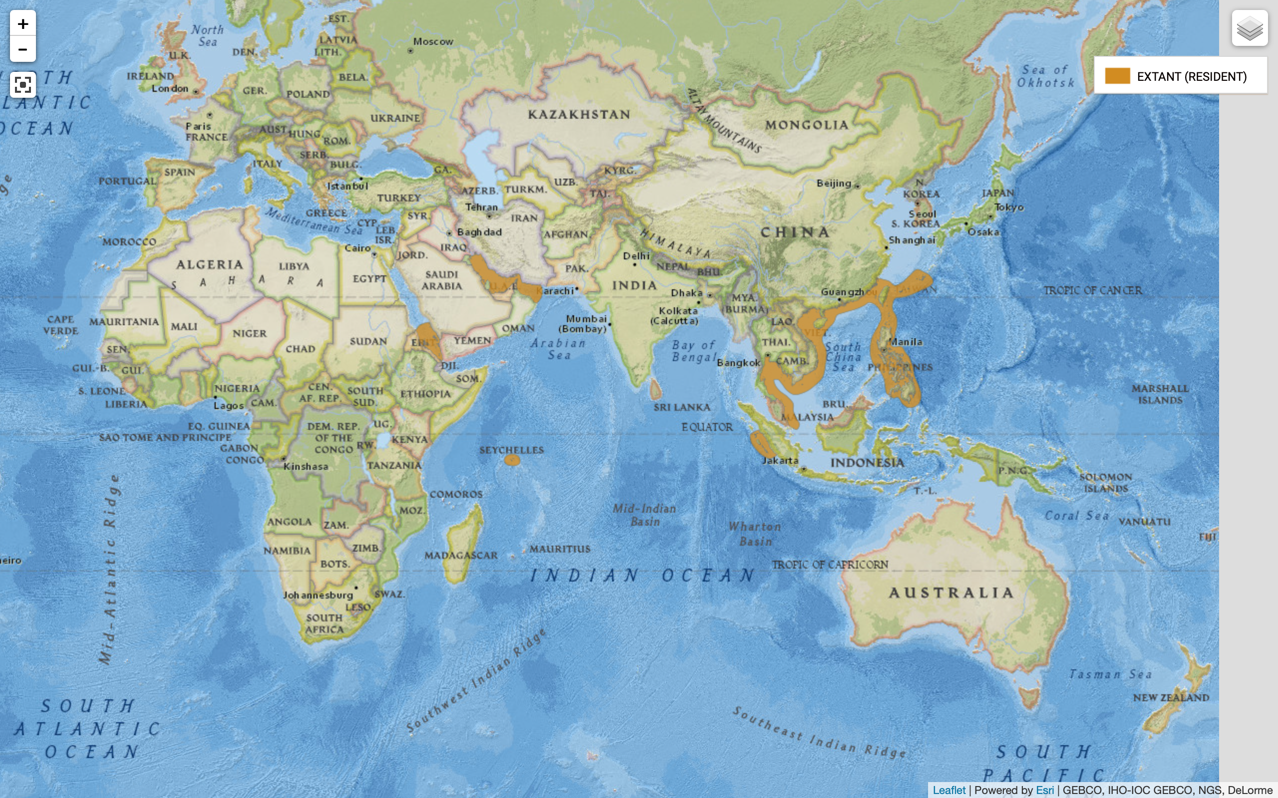 image